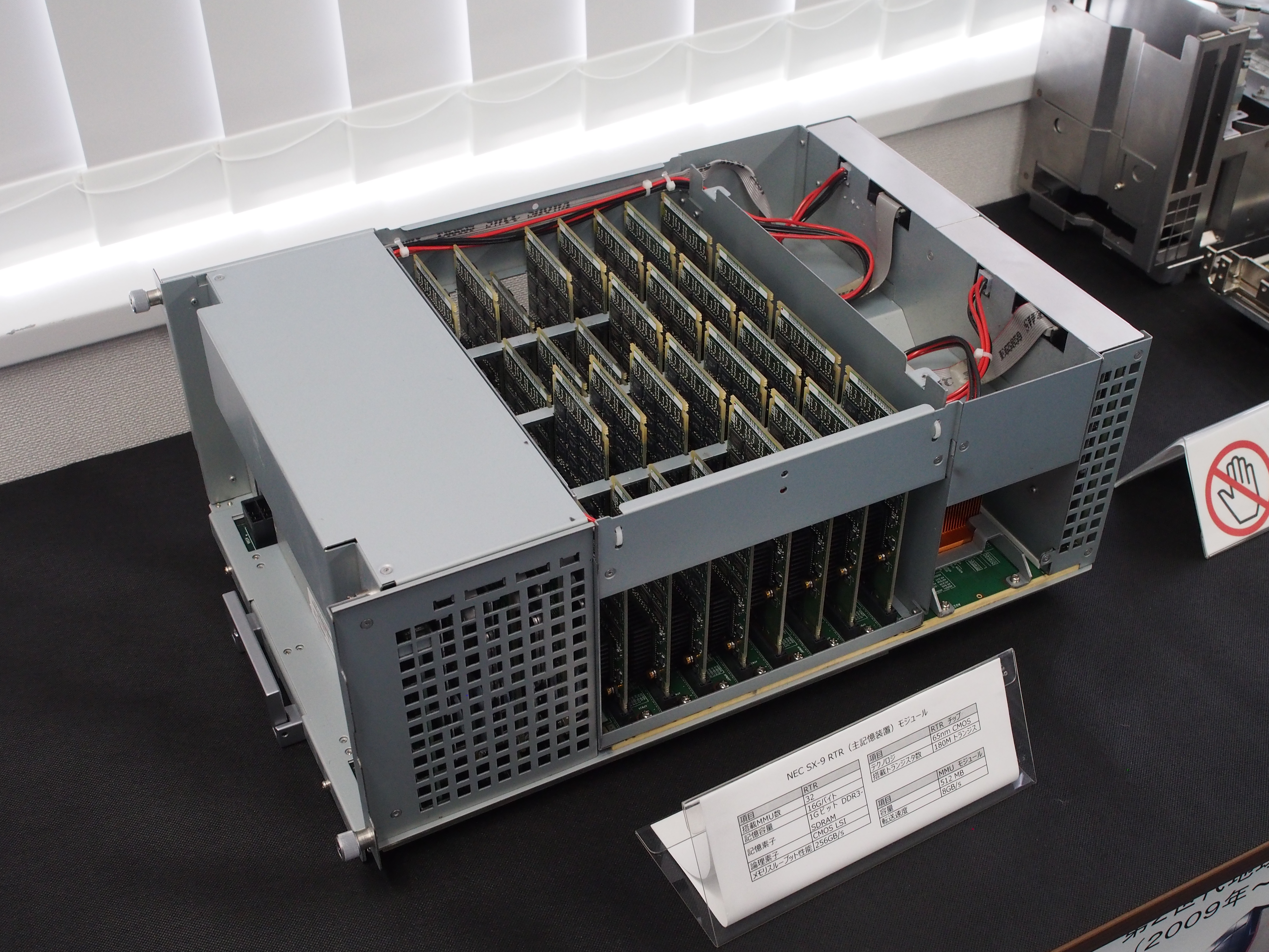 A RTR Module of NEC SX-9 supercomputer, which comprises 32 MMU (Main Memory Unit) Modules, and 2 Router (RTR) chips to connect to CPUs. Single node of SX-9 comprises 16 CPU Modules and 16 RTR Modules. Photographed on the open house day of JAMSTEC Yokohama Institute for Earth Sciences.